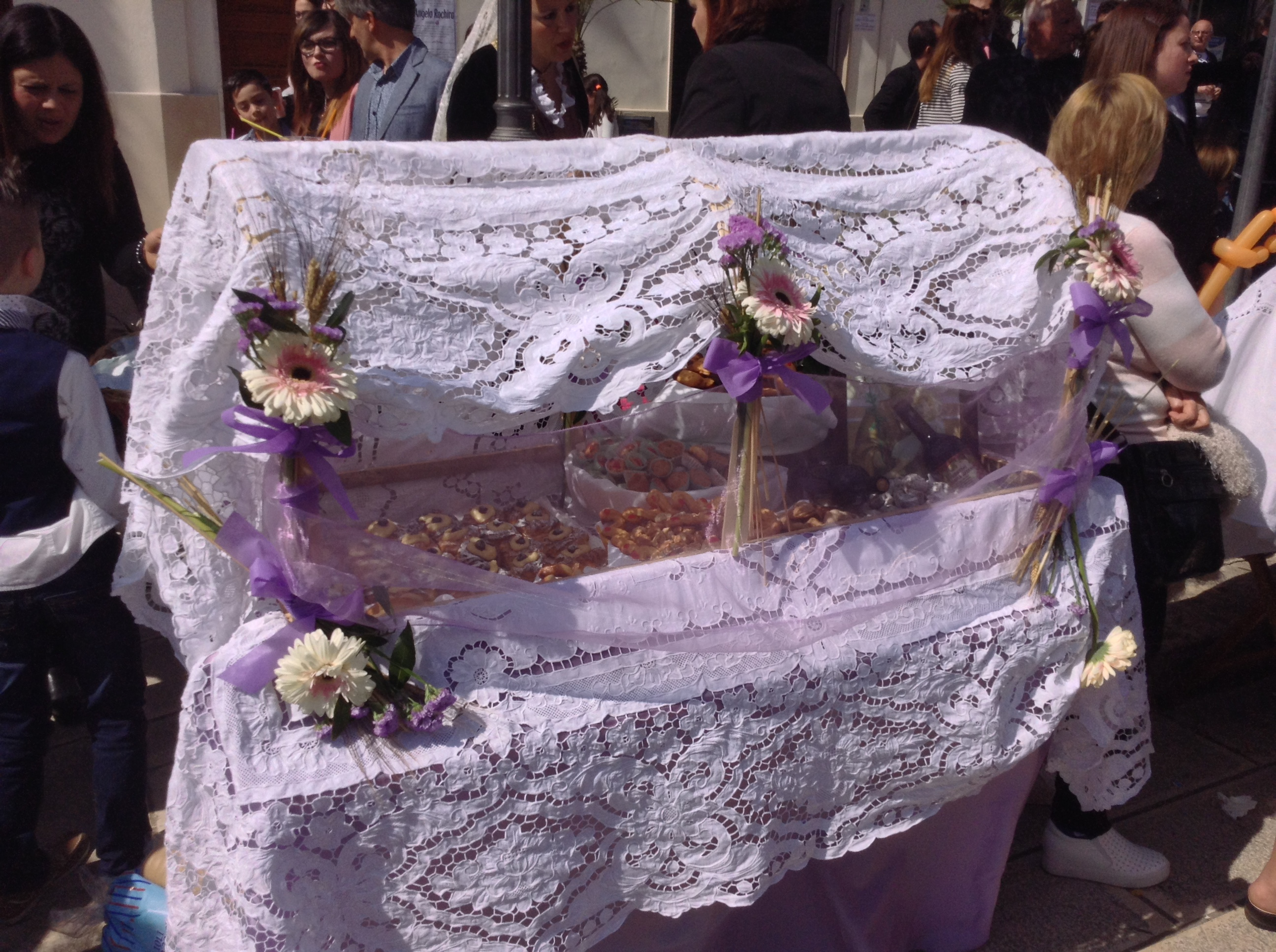 Mattre (Table of poor people)